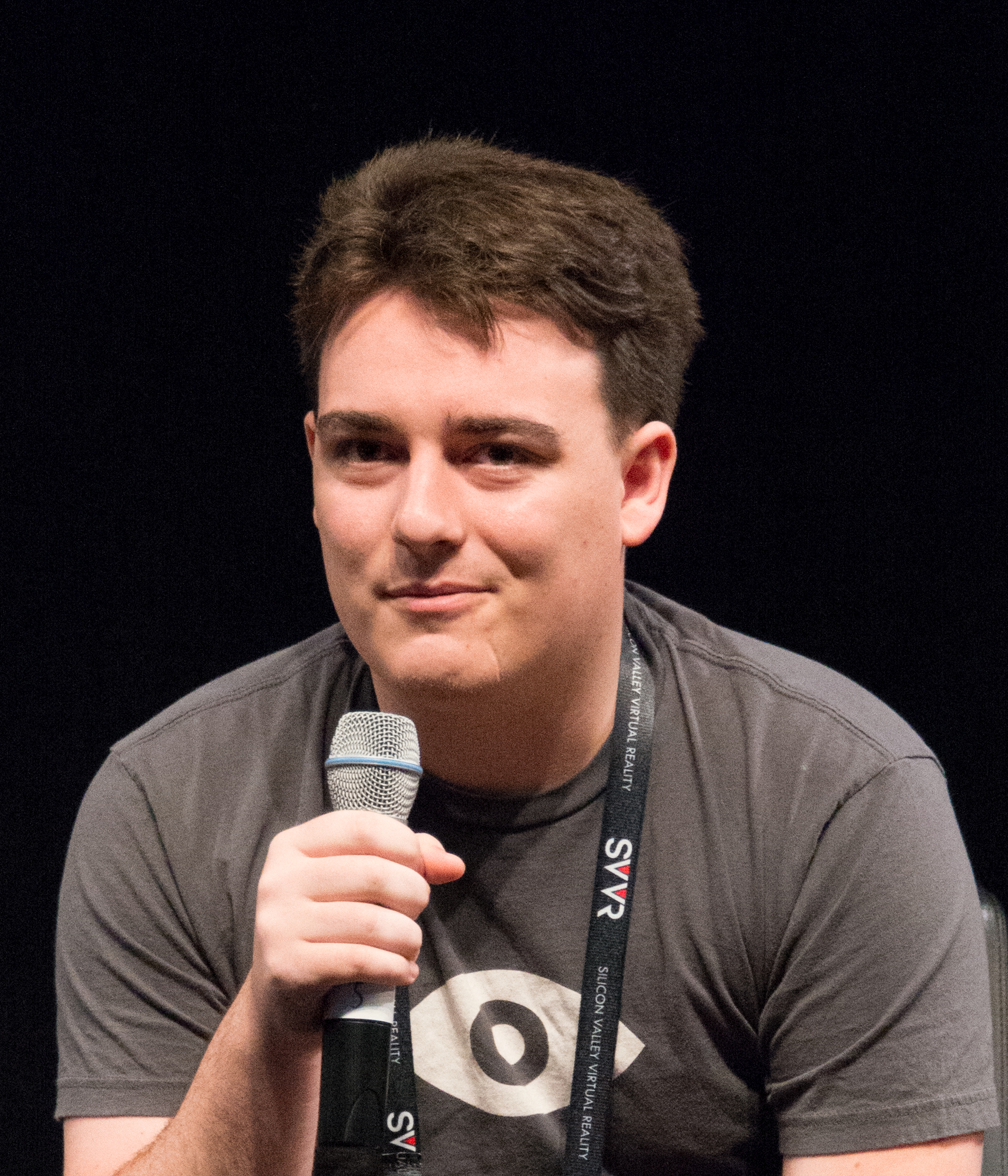 Palmer Luckey on stage during questions at end of panel discussion "Forecasting VR’s Adoption Over the Next 5 Years" (see conference schedule). In Hahn Auditorium of Computer History Museum in Mountain View, California. Wearing grey T-shirt featuring white Oculus VR logo in center.